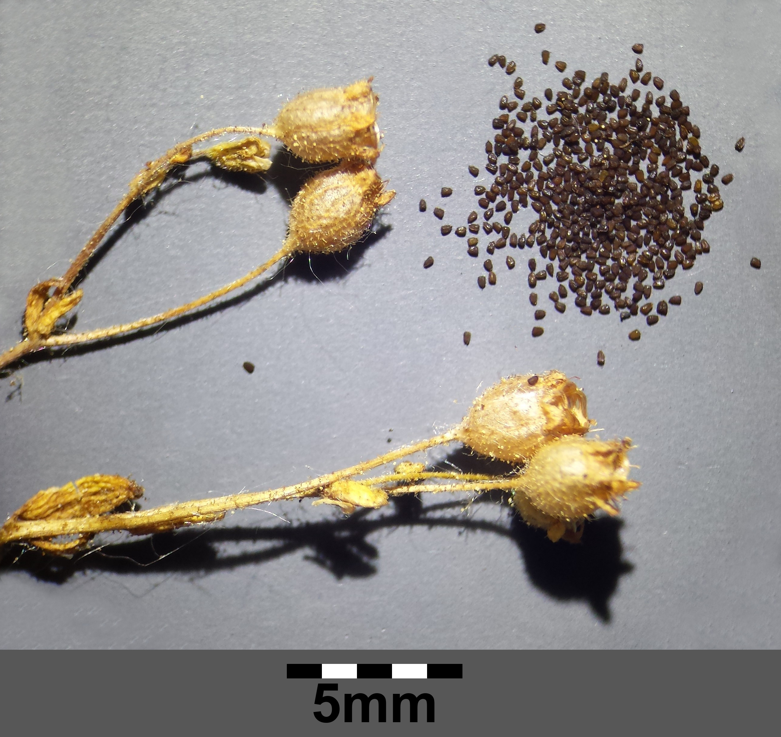 Fruits and seeds (leg. 2015-05-09) Taxonym: Saxifraga tridactylites ss Fischer et al. EfÖLS 2008 ISBN 978-3-85474-187-9 Location: Leiser Berge, district Korneuburg, Lower Austria - ca. 450 m a.s.l. Habitat: dry grassland on Limestone